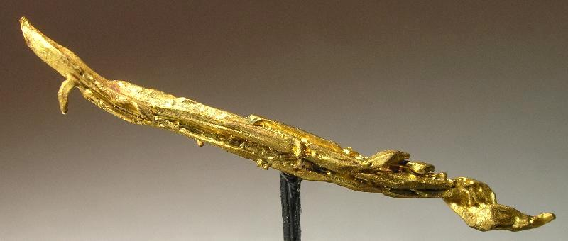 Gold Locality: Bohemia District, Douglas County, Oregon, USA (Locality at ) Size: thumbnail, 2.6 x .25 x .25 cm Gold A long elegant needle that is exquisitely spinel-twinned. there are also some developed crystals at one end. With such good color, luster, and form, this is quite a good Gold specimen and an important locality piece for any gold collection or thumbnail gold suite. 2.6 x .25 x .25 cm